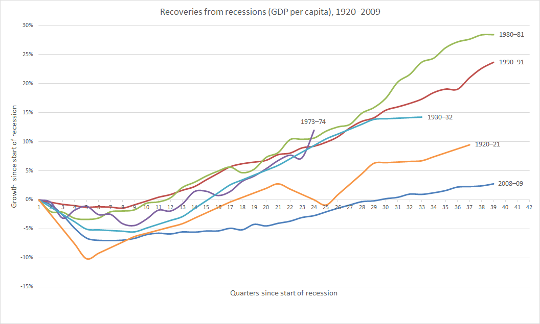 Data